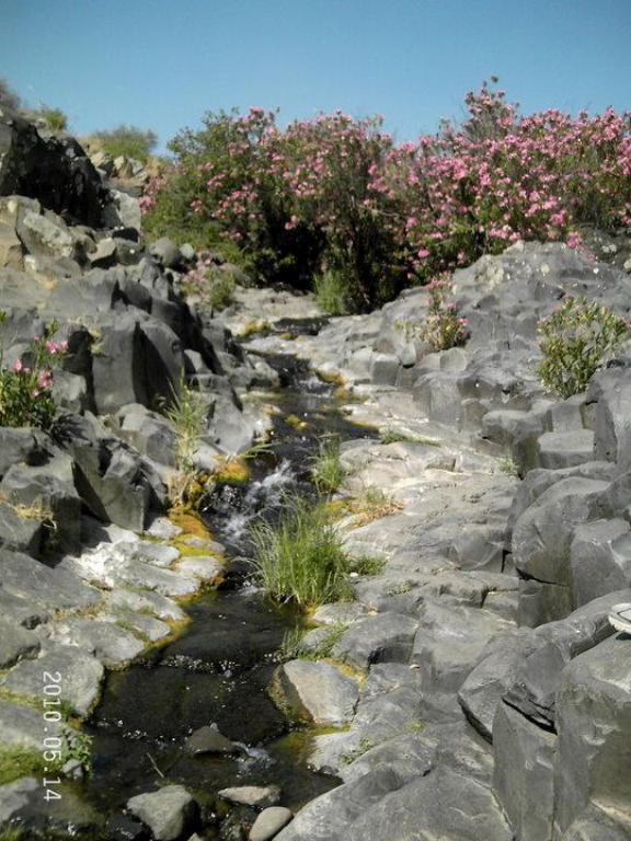 Geography of Israel